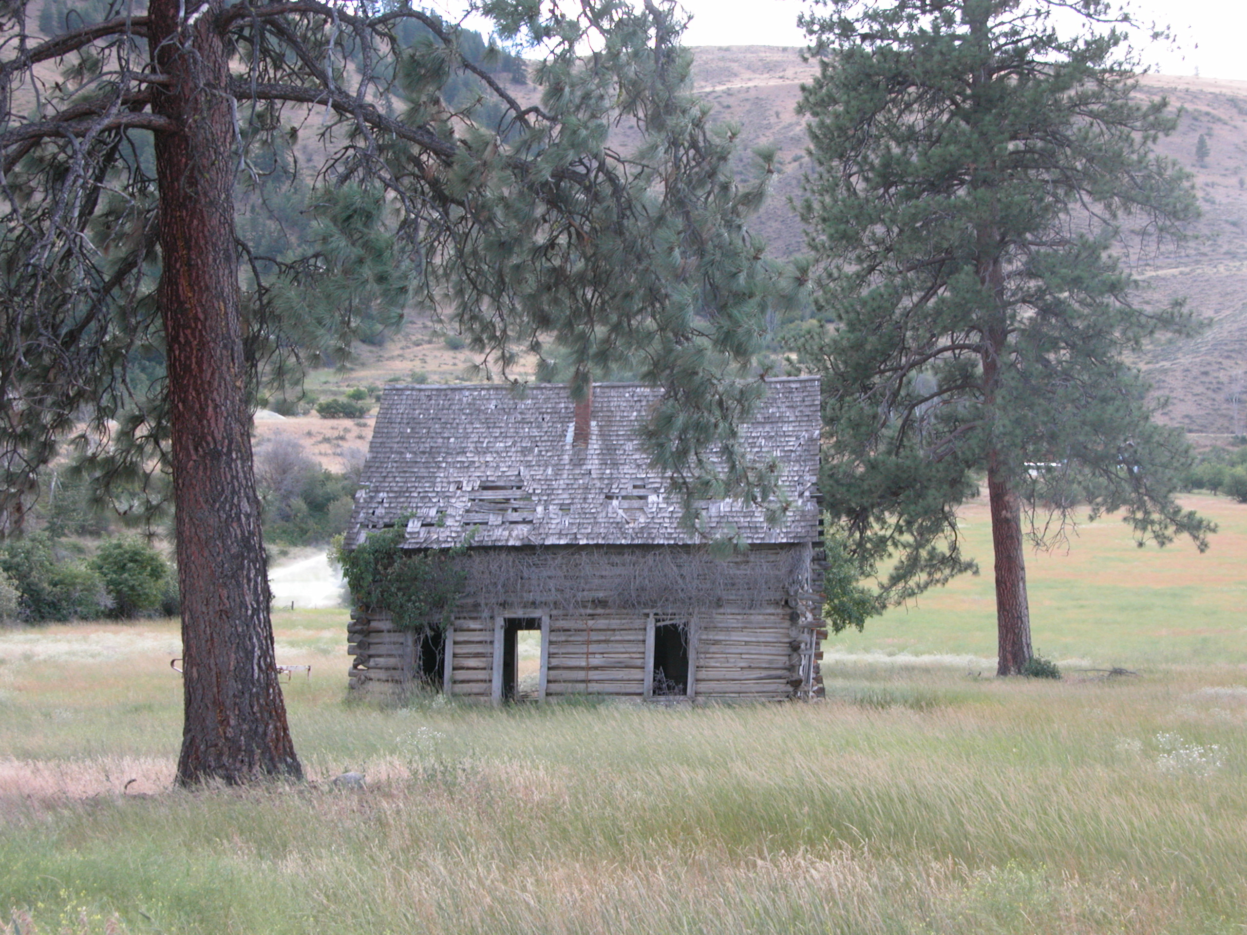 Abandoned log cabin outside Winthrop, Washington